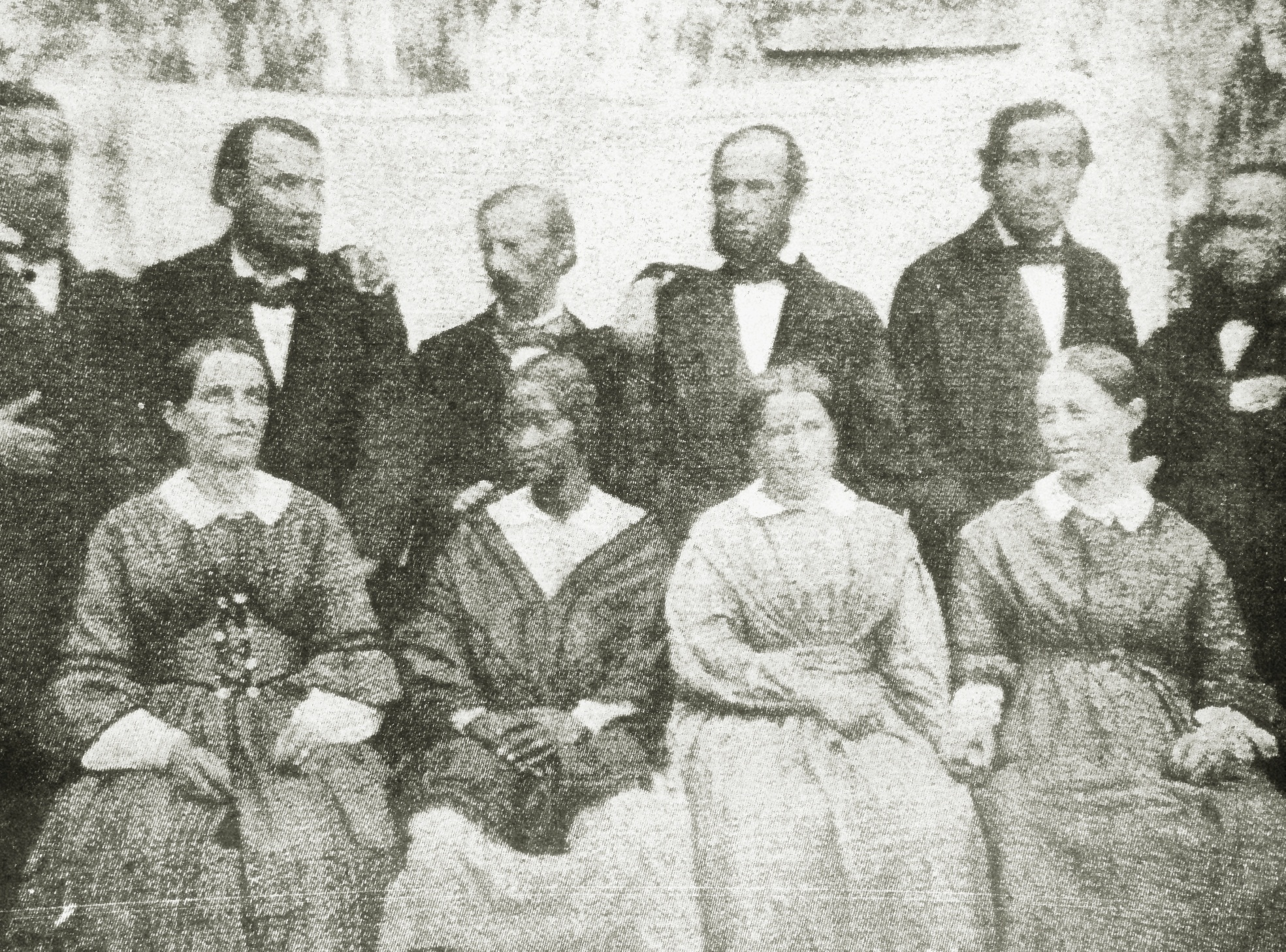 One of the oldest photographs from the region of the Gold Coast (contemporary Ghana): Missionaries of the Basel Mission in Christiansborg (Accra-Osu) around 1860 caption of this picture: Brothers and sisters in Christiansborg, around 1860 Pictured persons: Back row, from left to right, standing: (1) Elias Schrenk, missionary and finance controler (2) Christoph Wilhelm Locher, missionary (3) Herrmann Ludwig Rottmann, missionary and chief-cashier (4) Eberhard Schall, missionary (5) Georg Jakob Lindenmeyer, missionary (6) Matthias Klaiber, missionary Front row, from left to right, sitting: (7) Caroline Auguste Marie Locher-Dietz, mission sister and wife of (2) (8) Regina Rottmann-Hesse, mulatto, mission sister and wife of (3) (9) Friederike Louise Magdalena Schall-Mugler, mission sister (10) Christiane Sophie Lindenmeyer-Schweickhardt, mission sister Note to (8): Regina Rottmann-Hesse was descended from a mulatto family of traders in Osu. Her wedding with the chief-cashier of the mission remained one of the few, tolerated mixed-race marriages.